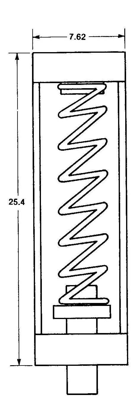 Sketch of a compressee and how it hangs underneath the float. By changing its volume, it allows the float to match the compressibility of the surrounding seawater.